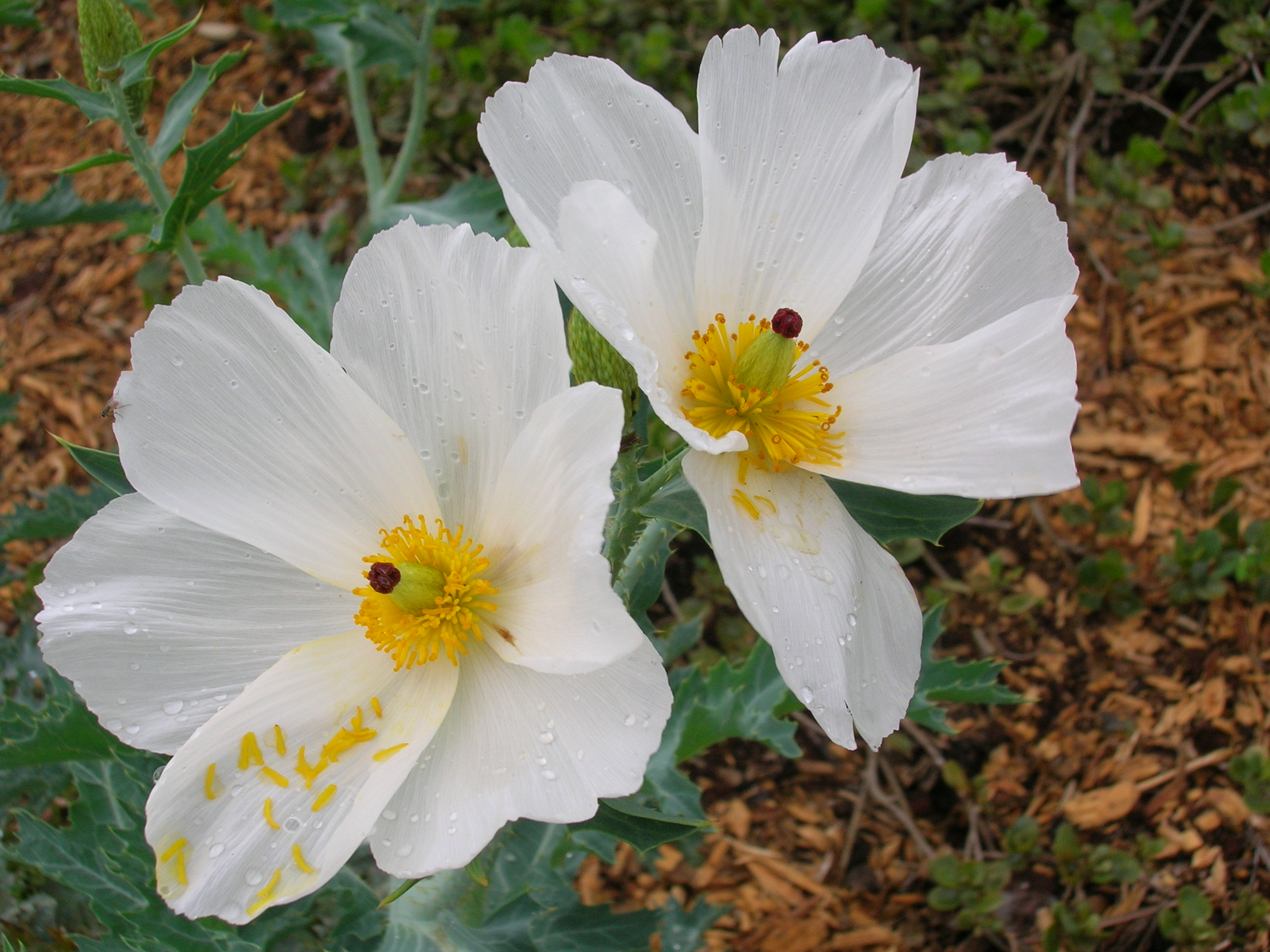 Argemone glauca (flowers). Location: Maui, Maui Nui Botanical Gardens